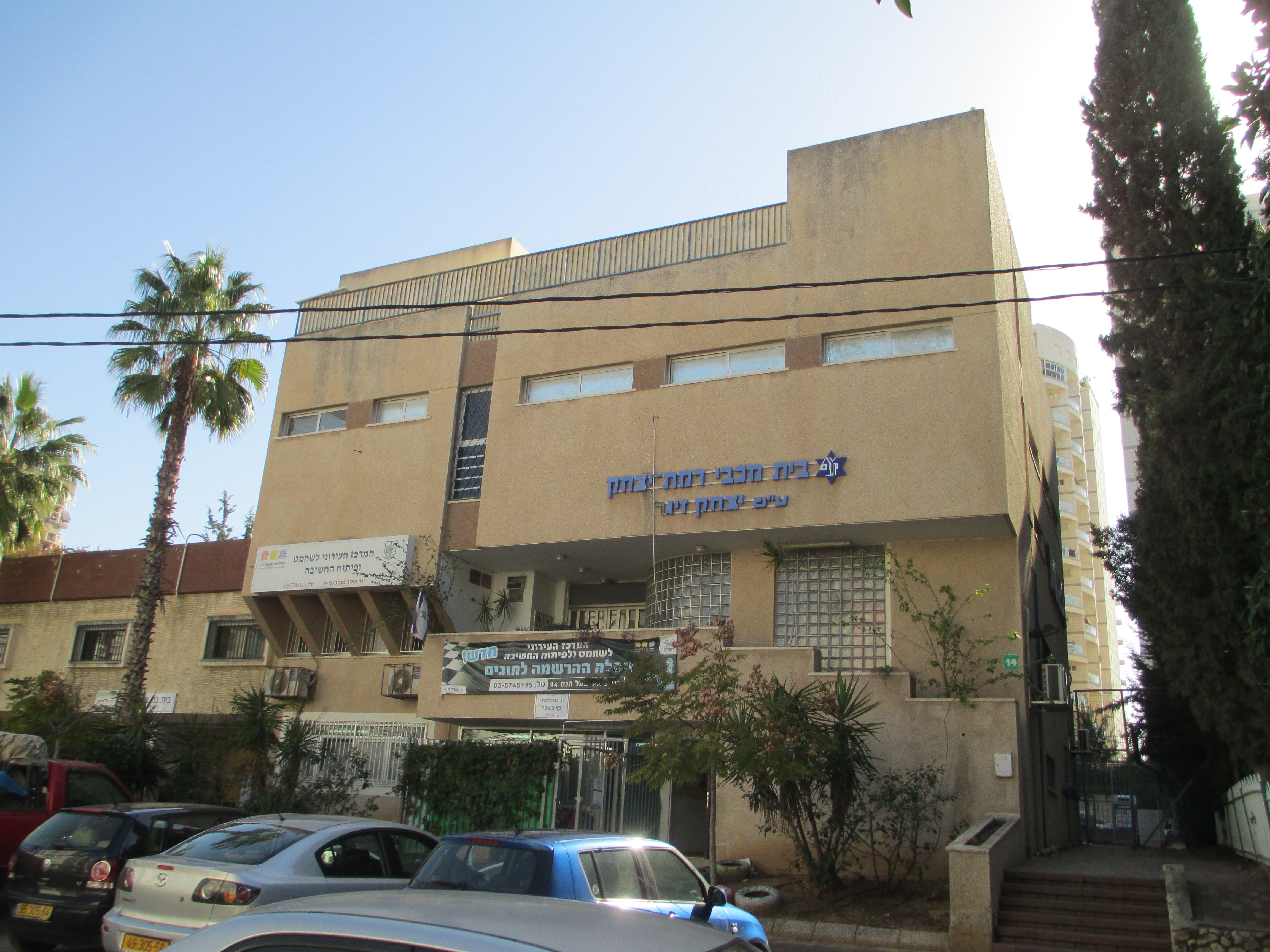 Maccabi Ramat Izhak in Ramat Gan